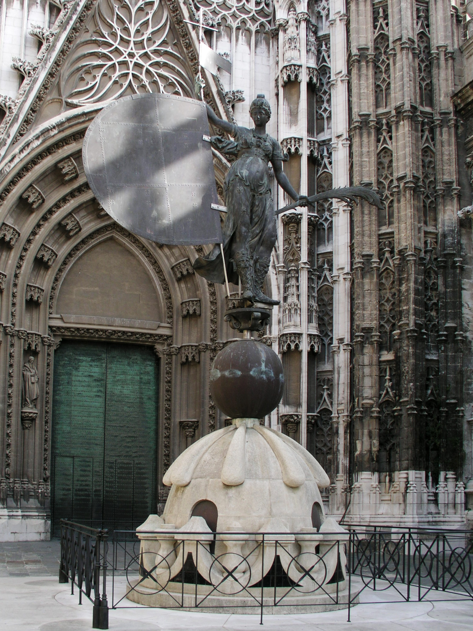 Sevilla, Spain, El Geraldillo, copy placed outside the Giralda building.